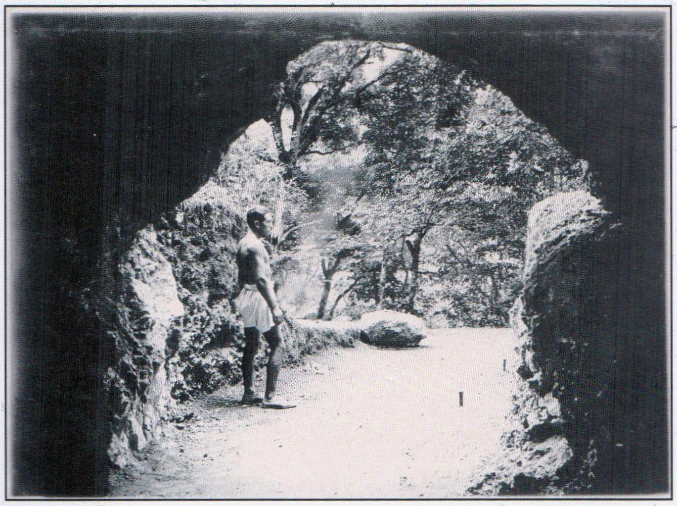 Entrance of the Lök-völgy Cave (Bükk Mountains).